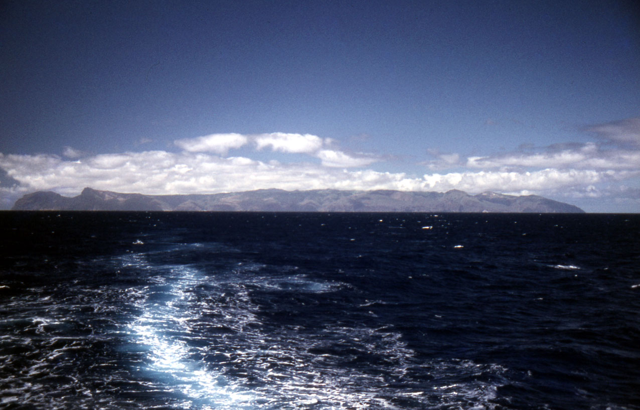 Saint Helena Island. Taken off the deck of the RMS St Helena